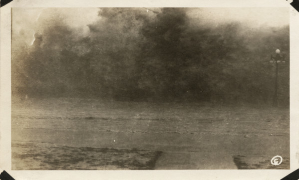 Waves on Seawall 4:30-5:00 pm 1915 Galveston Hurricane